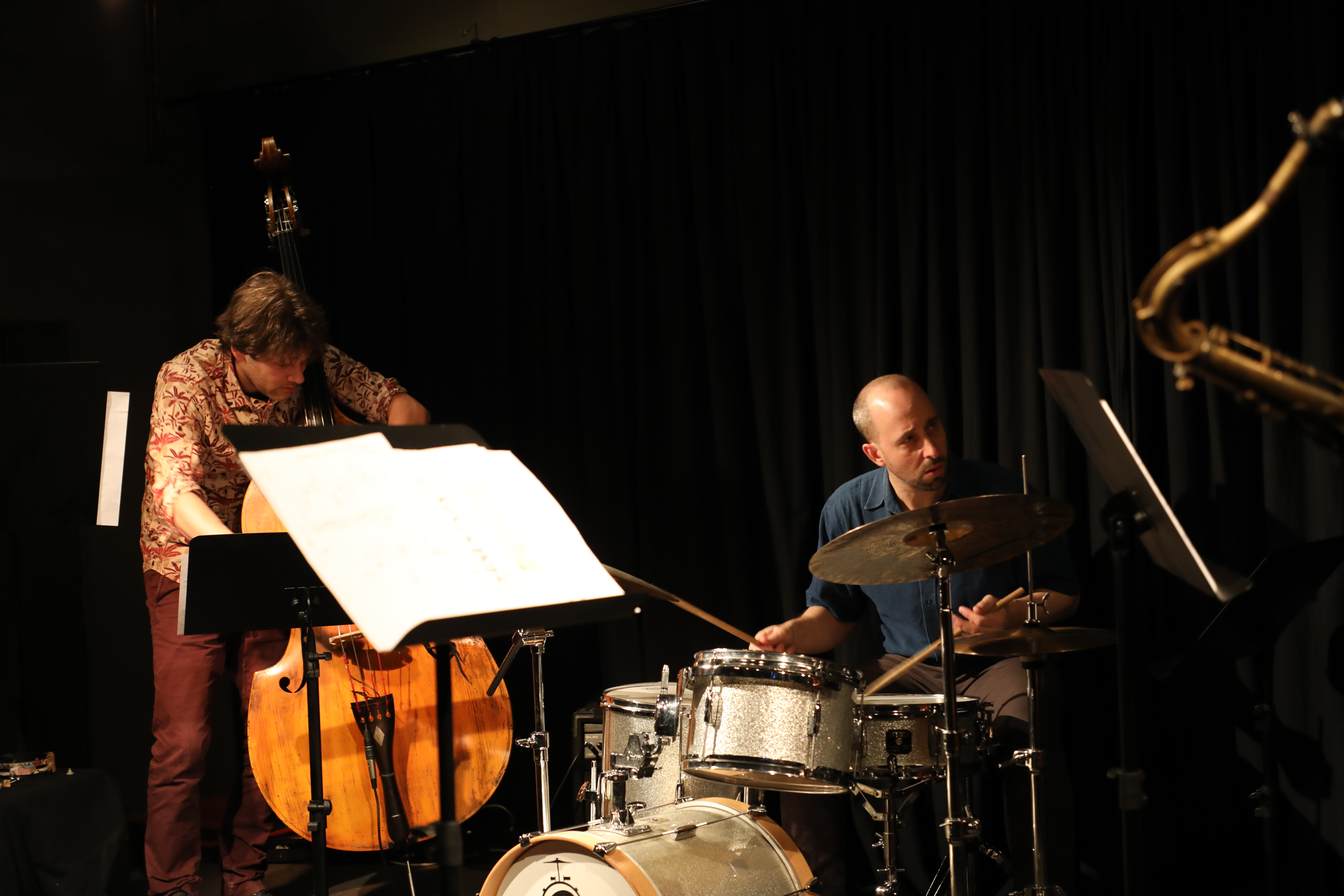 The Fictive Five is the jazz ensemble of composer and saxophone player Larry Ochs. Members are Nate Wooley (tr), Harris Eisenstadt (dr), Pascal Niggenkemper (db) & Ken Filiano (db).